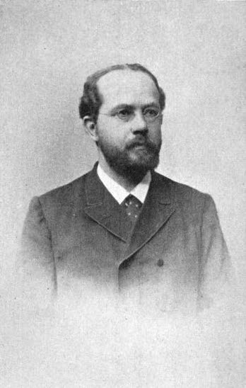 Ludwig Keller (1849-1915), German classical philologist and archivist. Historian of religious movements and Free Masonry researcher. Founder of the Comenius Society and editor of its publications. Author of 28 articles in the Allgemeine Deutsche Biographie (ADB) – one of the most important and most comprehensive biographical reference works in the German language.